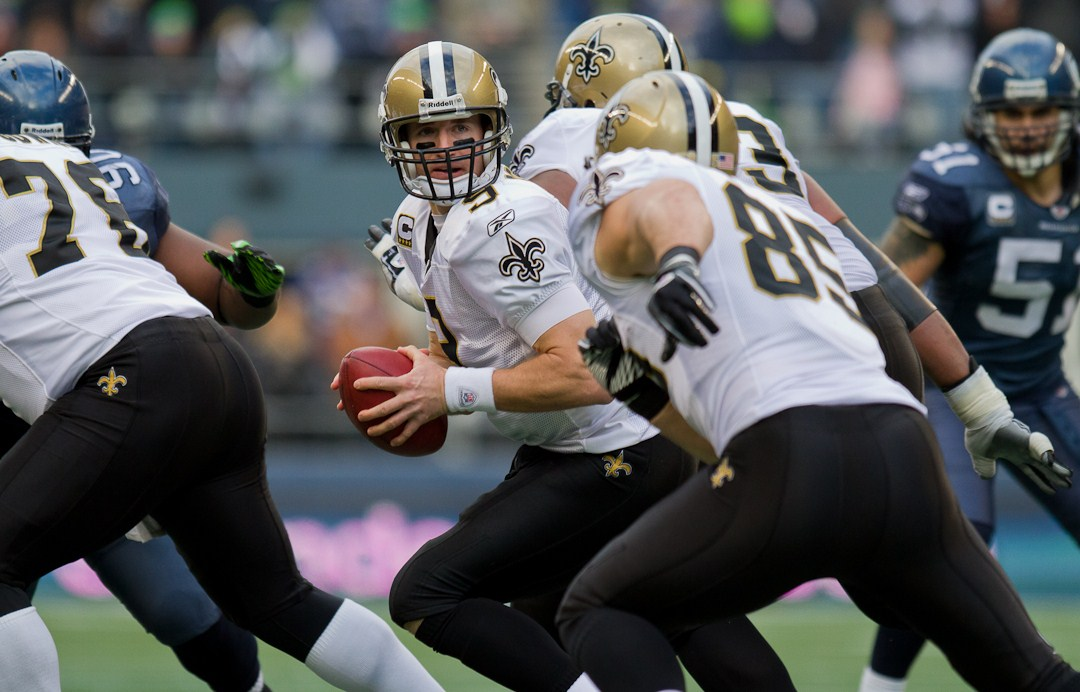 Drew Brees, quarterback of the New Orleans Saints, prepares to pass the ball in the 2011 NFC Wild Card game vs. the Seattle Seahawks.